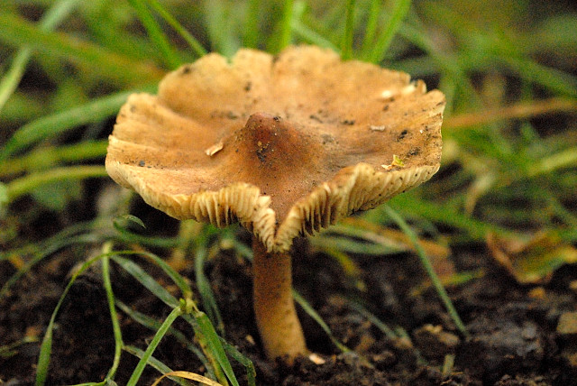 Inocybe maculata from Commanster, Belgium. If you think this is a different taxon, please contact James Lindsey.